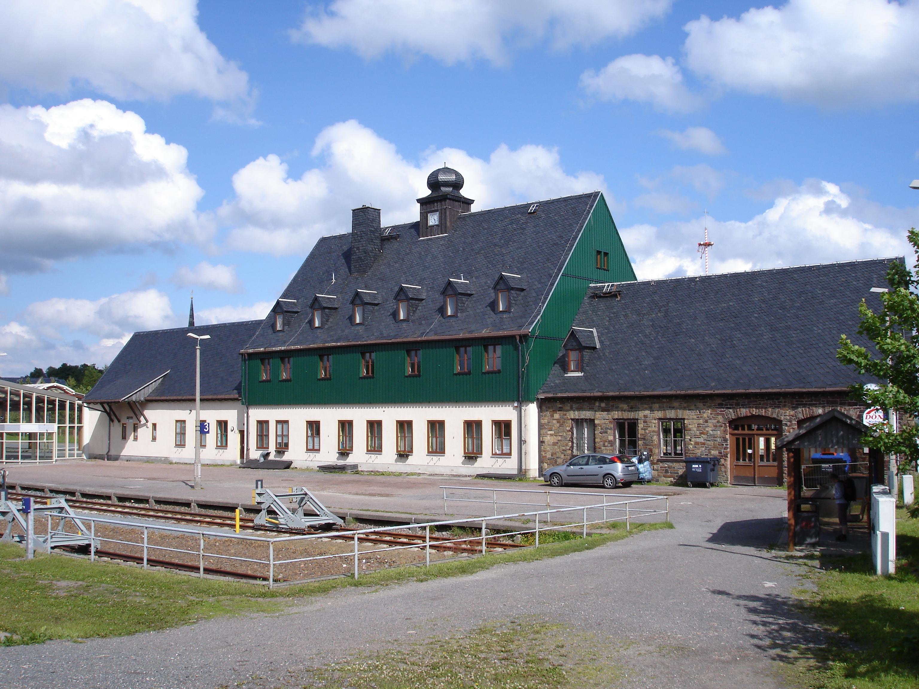 station Kurort Altenberg, Müglitztalbahn, Saxony, Germany